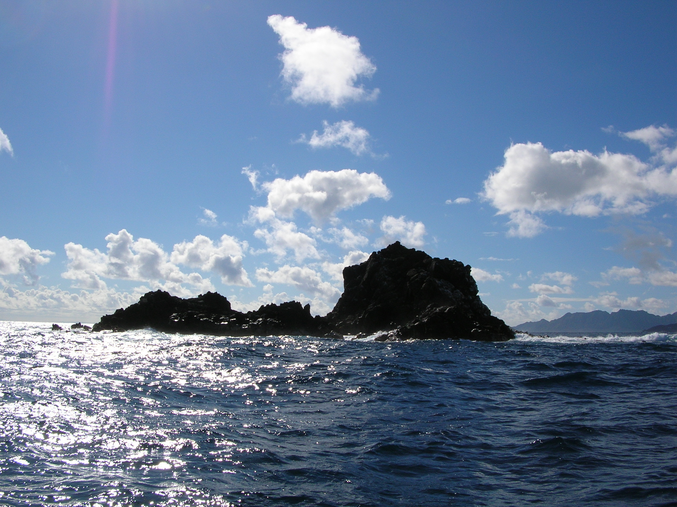 Mokolea Rock near Oahu, Hawaii